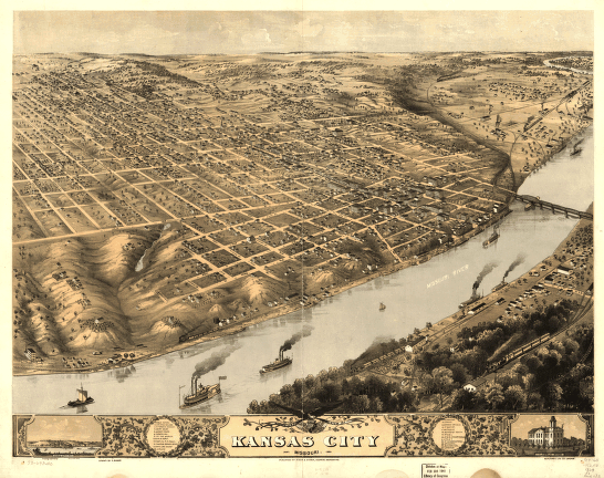 Bird's eye view of Kansas City, Missouri. Jan'y. 1869.